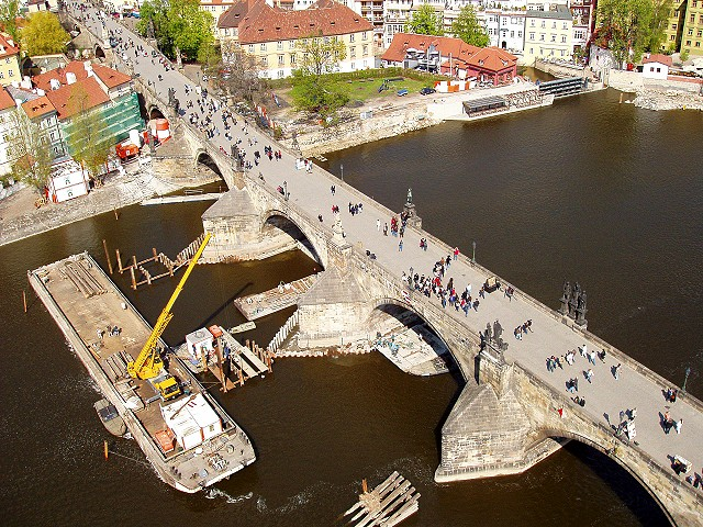 Aerial view of Charles Bridge, Prague